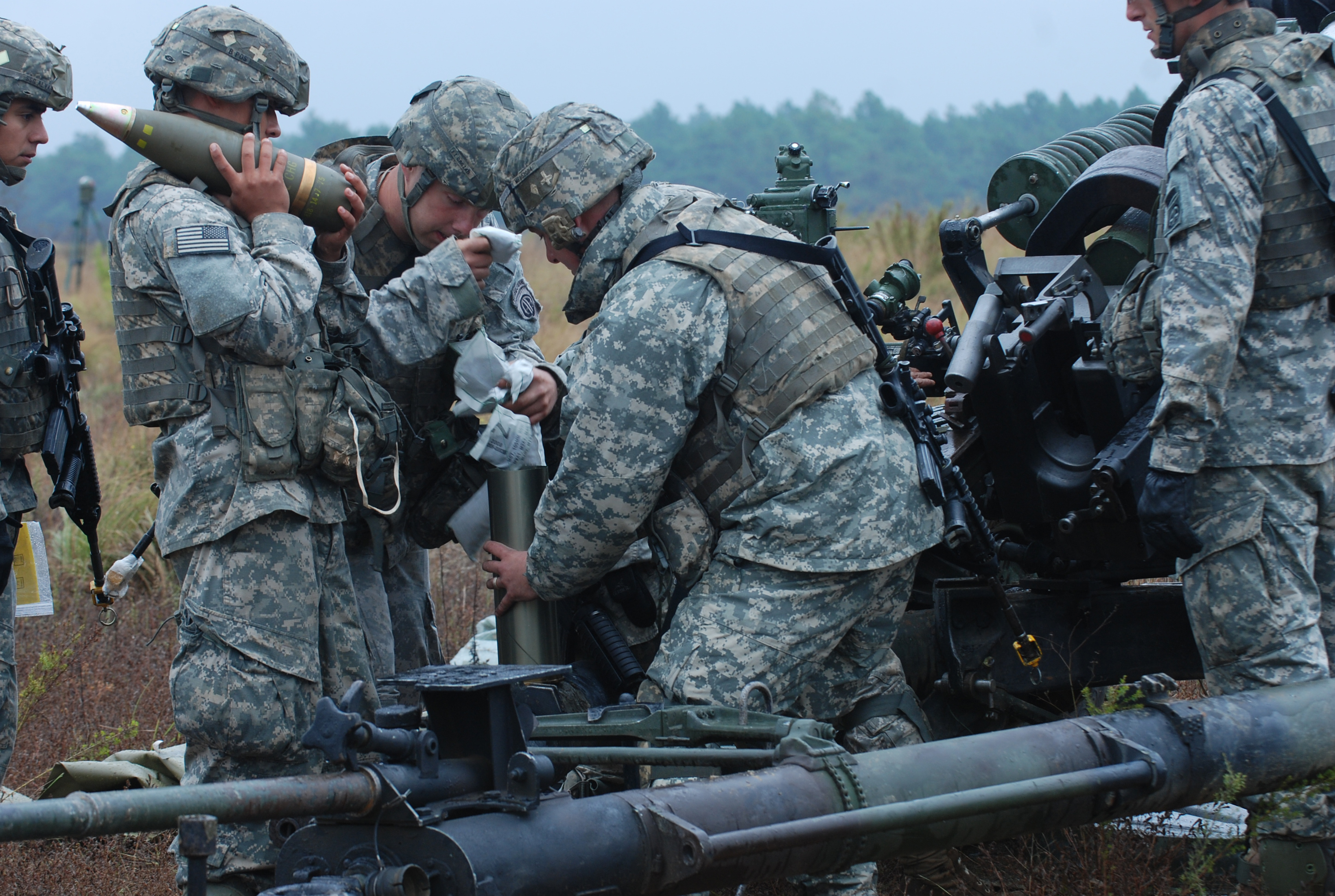 Paratroopers with B Battery, 2nd Battalion, 319th Airborne Field Artillery Regiment, 2nd Brigade Combat Team, 82nd Airborne Division, prepare to insert a round into a howitzer during a heavy drop mission on Oct. 14. Paratroopers from B Battery jumped onto Holland Drop Zone after the howitzer and a humvee were dropped. They were they timed on how quickly they could pack their parachutes, get the howitzer off the pallet, assembled and ready to fire.